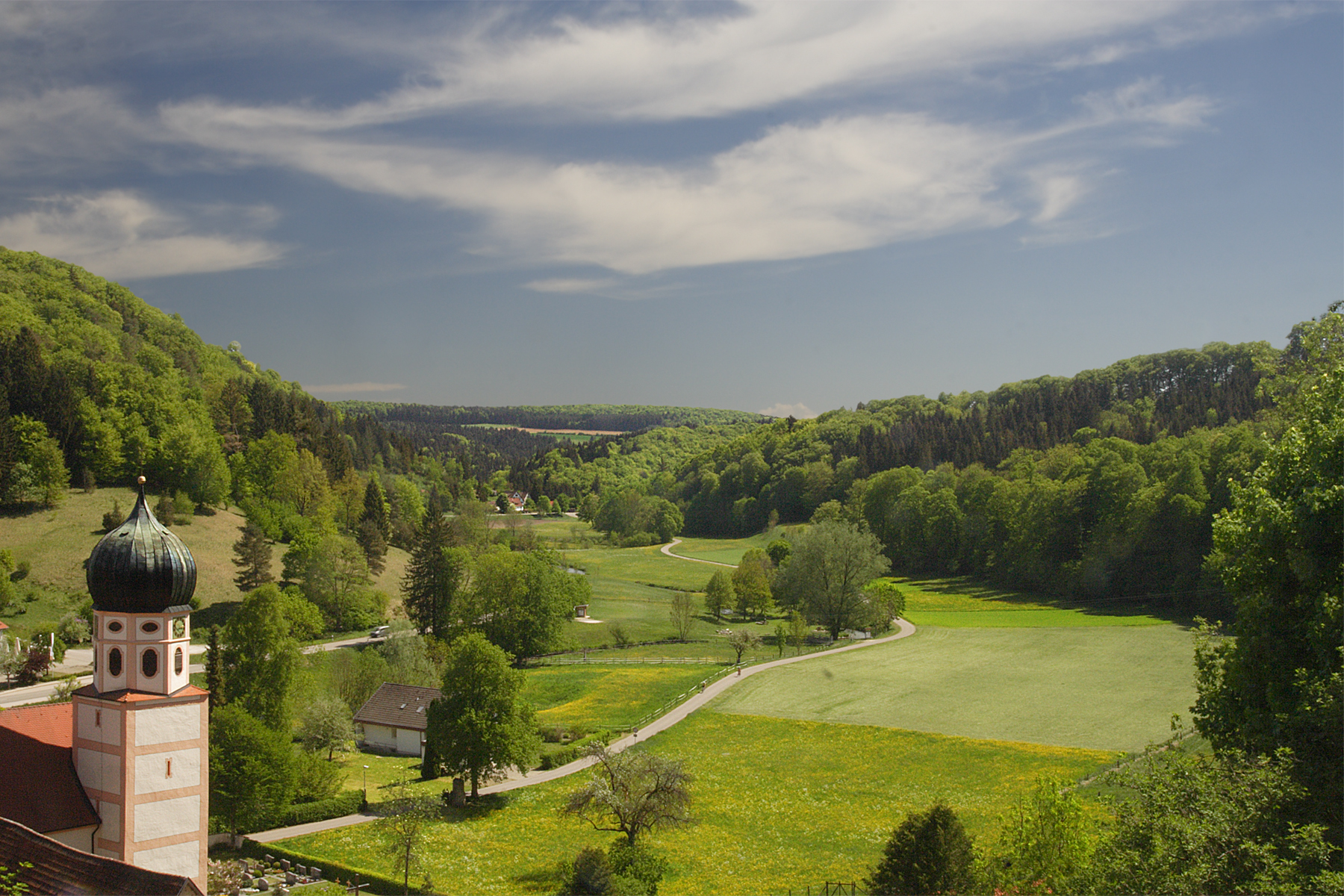 View oft he valley of the Große Lauter in the village Bichishausen. The valley makes a loop to the right like an entrenched river does, leaving a rise or hill in the middle. The river has almost cut its loop, the height between the two closest parts is eroded down to mere few meters, the loop almost fully developed. The rock bottom of the river, eroded in late Pleistocene time is now filled up with layers of sediments - humus for agriculture, clayey silt and solidified tufa (CaCO3) of varying thickness. The layer of tufa sediment was detected in the river bed for more than 3 km – which is 2 km behind the horizon. For a well identifiable bank of tufa see the photo: Image:Kalktuff-Wasserfall_Grosse-Lauter_Schwaebische-Alb.jpg. The valley is extremely broader than the actual small river is now. This refers to the long earlier epochs, during which the river valley was eroded. The gradual slope behind the row of trees on the right has a rocky fluvial terrace, which was formed by an earlier river bed of late pleistocene time.